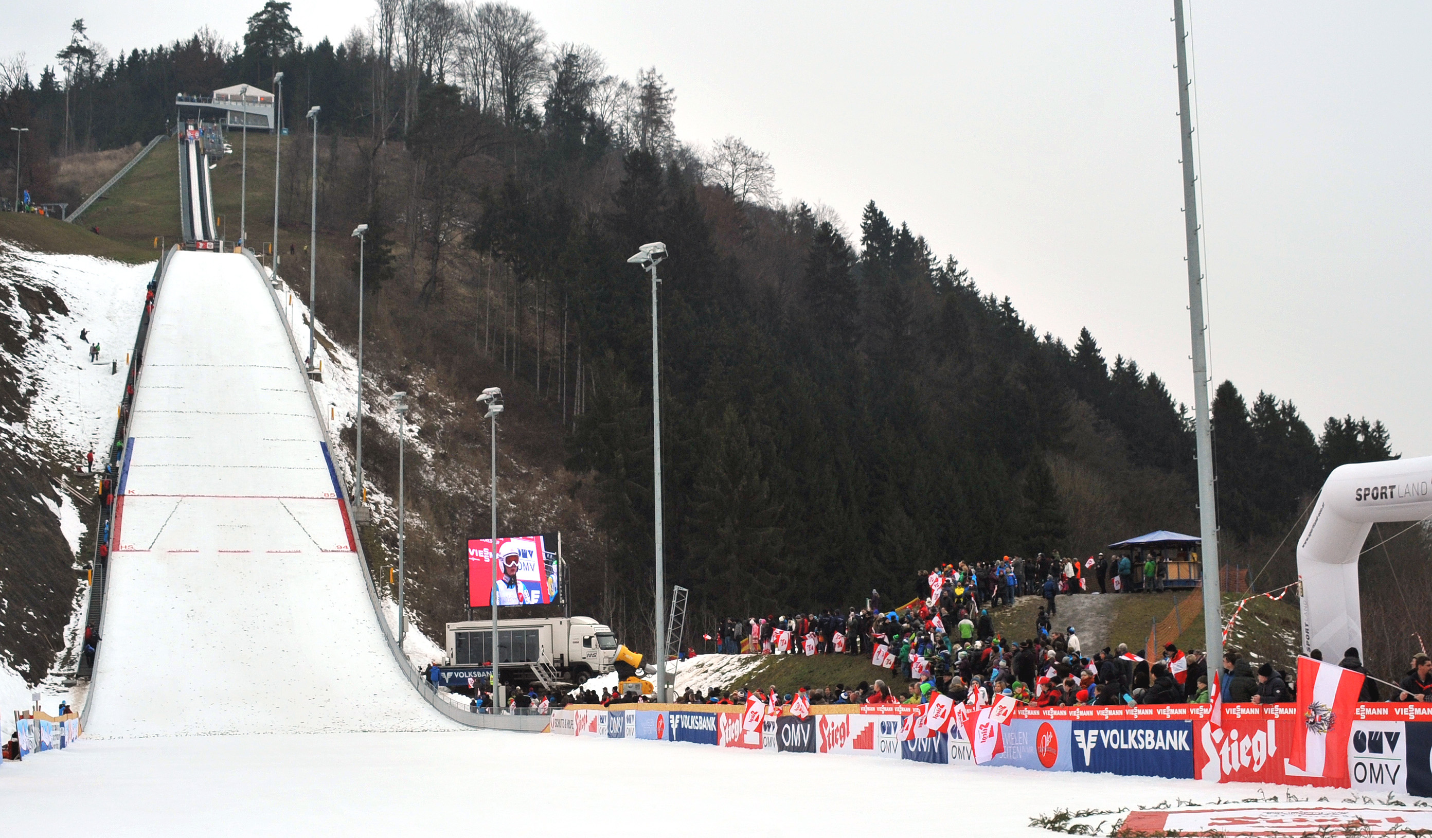 FIS Ski Jumping World Cup Ladies 14th World Cup Competition Normal Hill Individual Hinzenbach (AUT) Sun 2 Feb 2014: Schanze in Hinzenbach